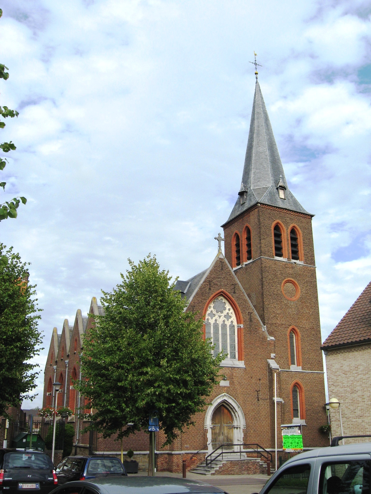 Church of Saint Martin in Martenslinde, Bilzen, Limburg, Belgium